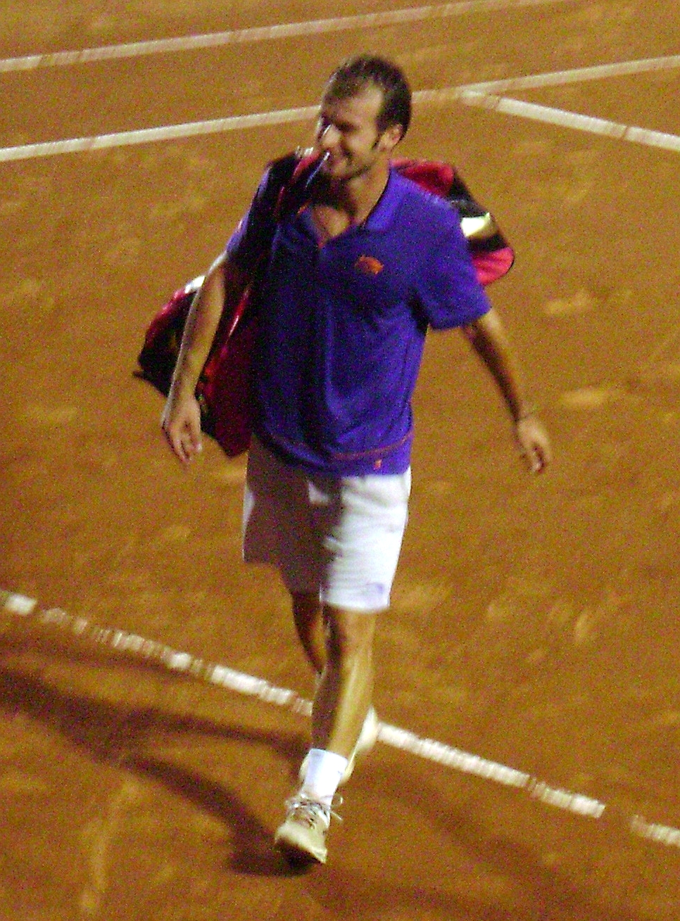 Romanian tennis player Adrian Ungur after winning the 1st round match against 7th seeded Italian Andreas Seppi at the 2010 BCR Open Romania